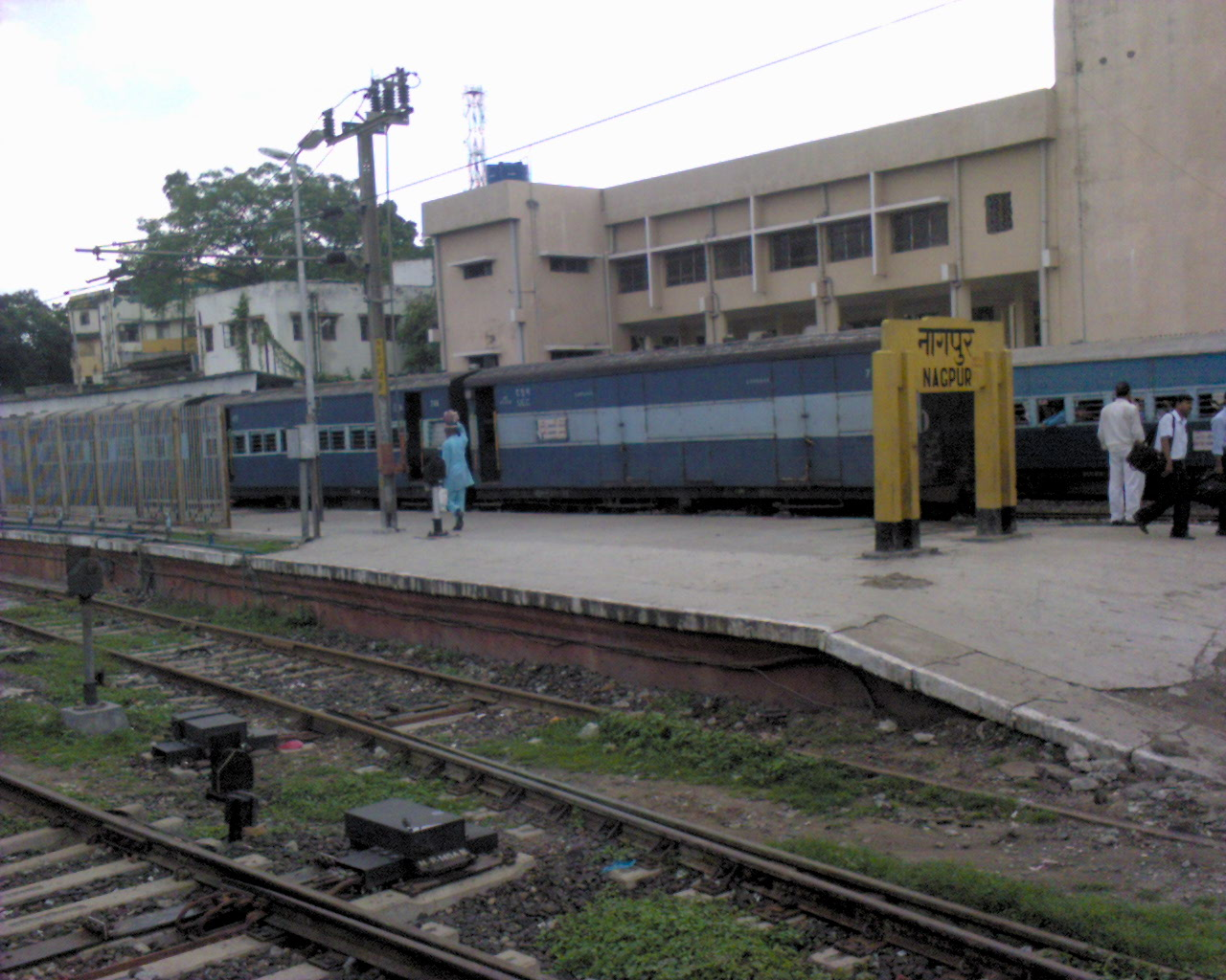 Nagpur Rail Station, from a train